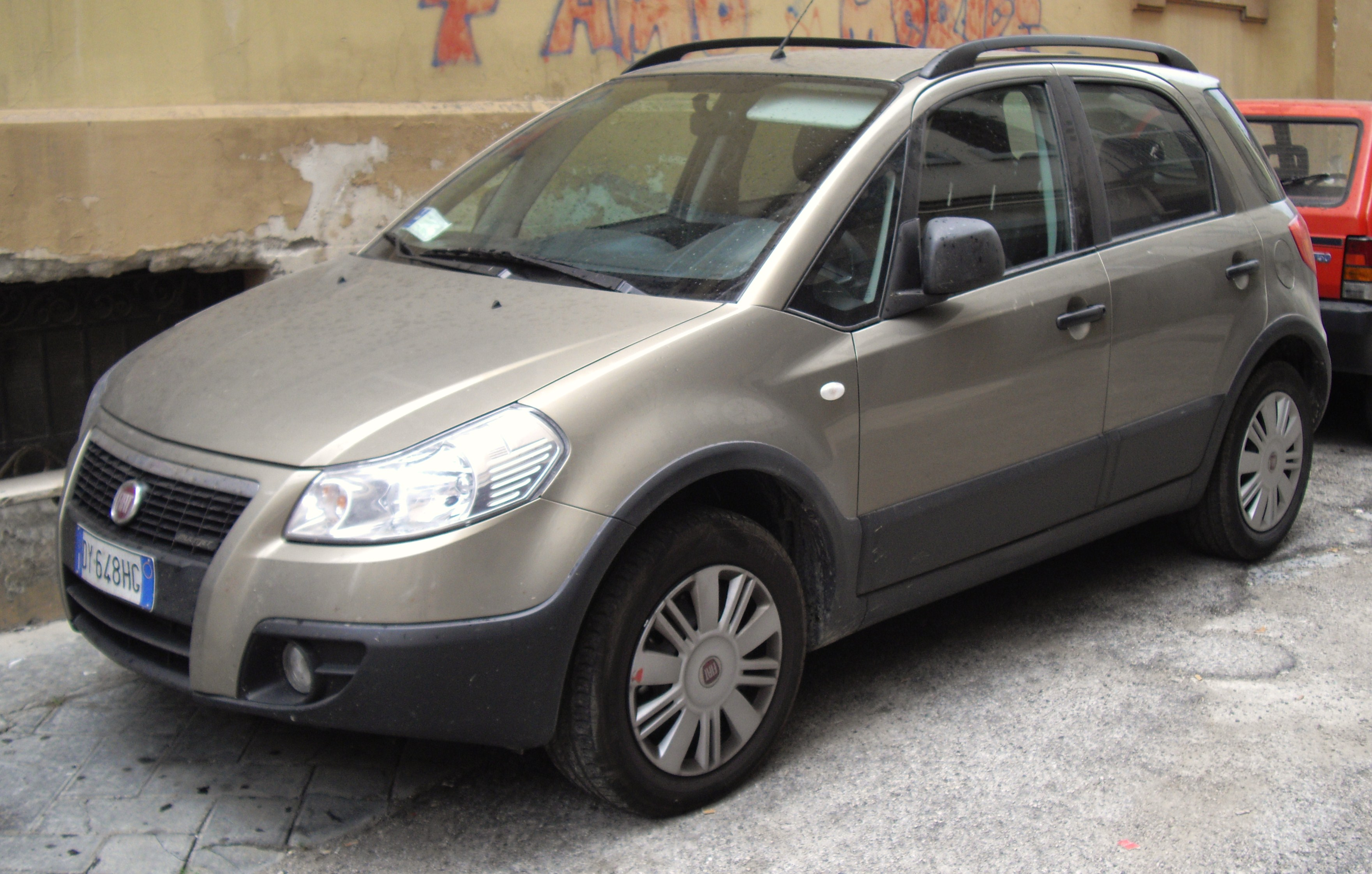 Fiat Sedici